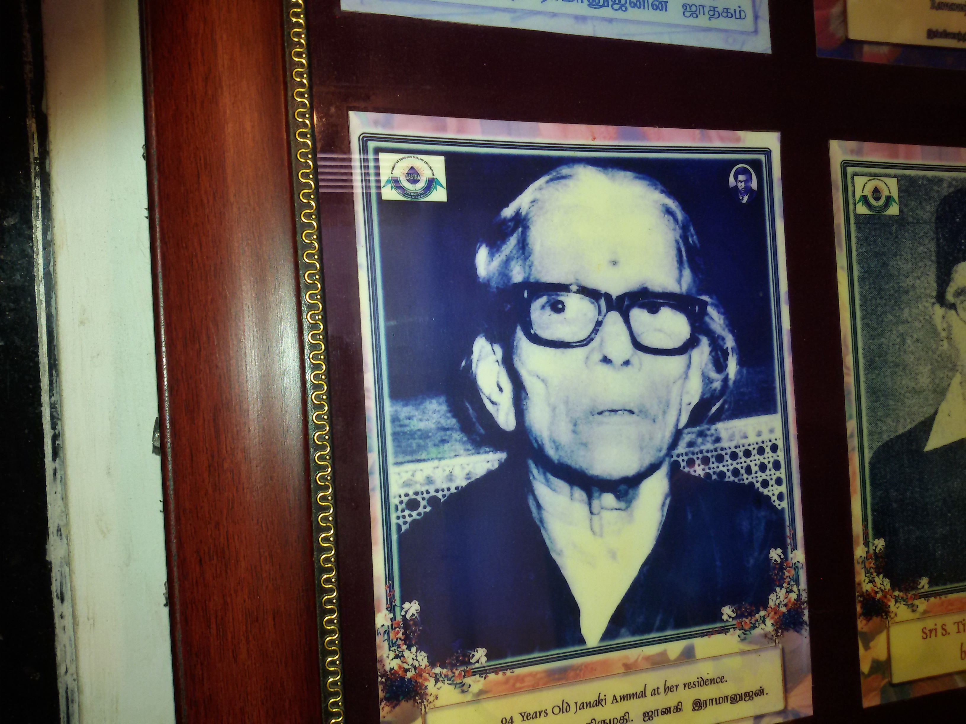 Janaki Ammal Srinivasa Ramanujan's wife at age 90